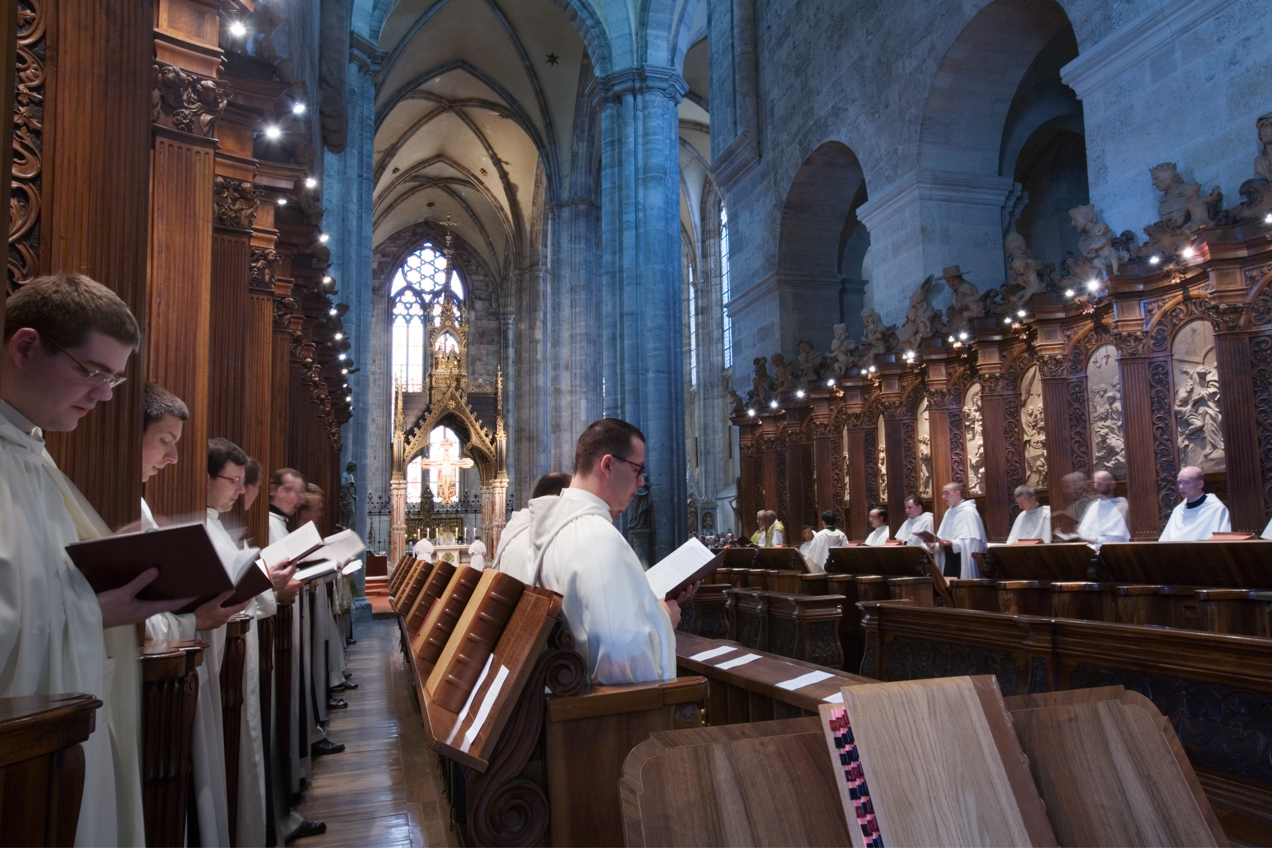 Religiuos service and monk choir. Heiligenkreuz Abbey, Austria